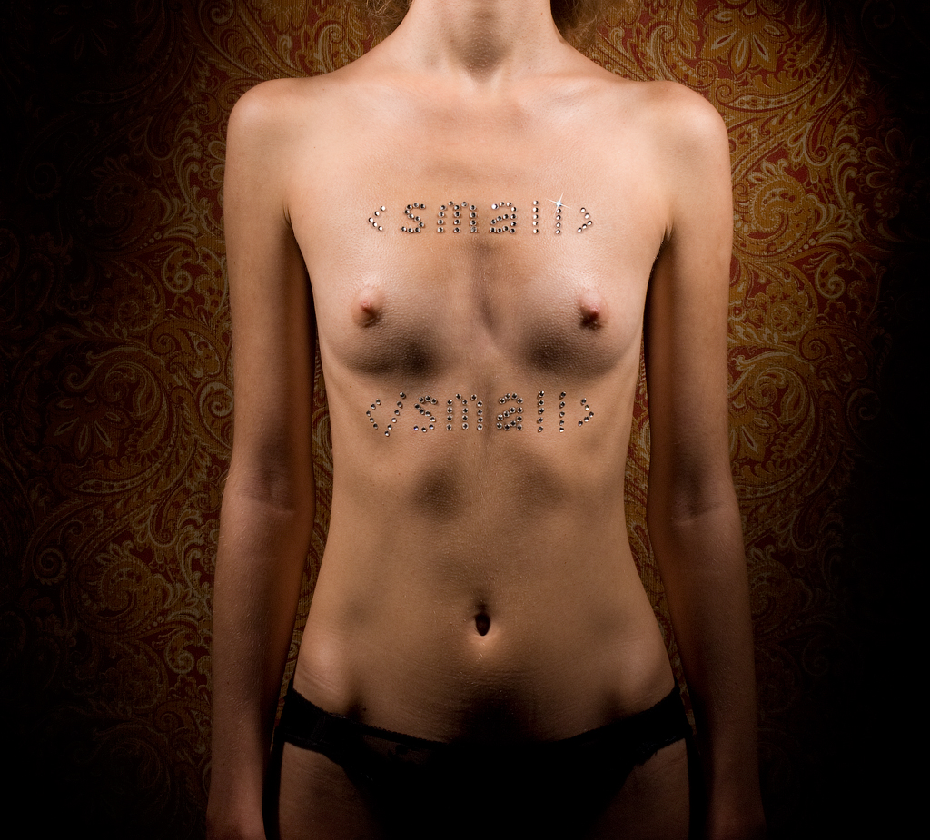 is HTML tag that defines small text. The torso of a topless woman with the word "small" written above and below her breasts.